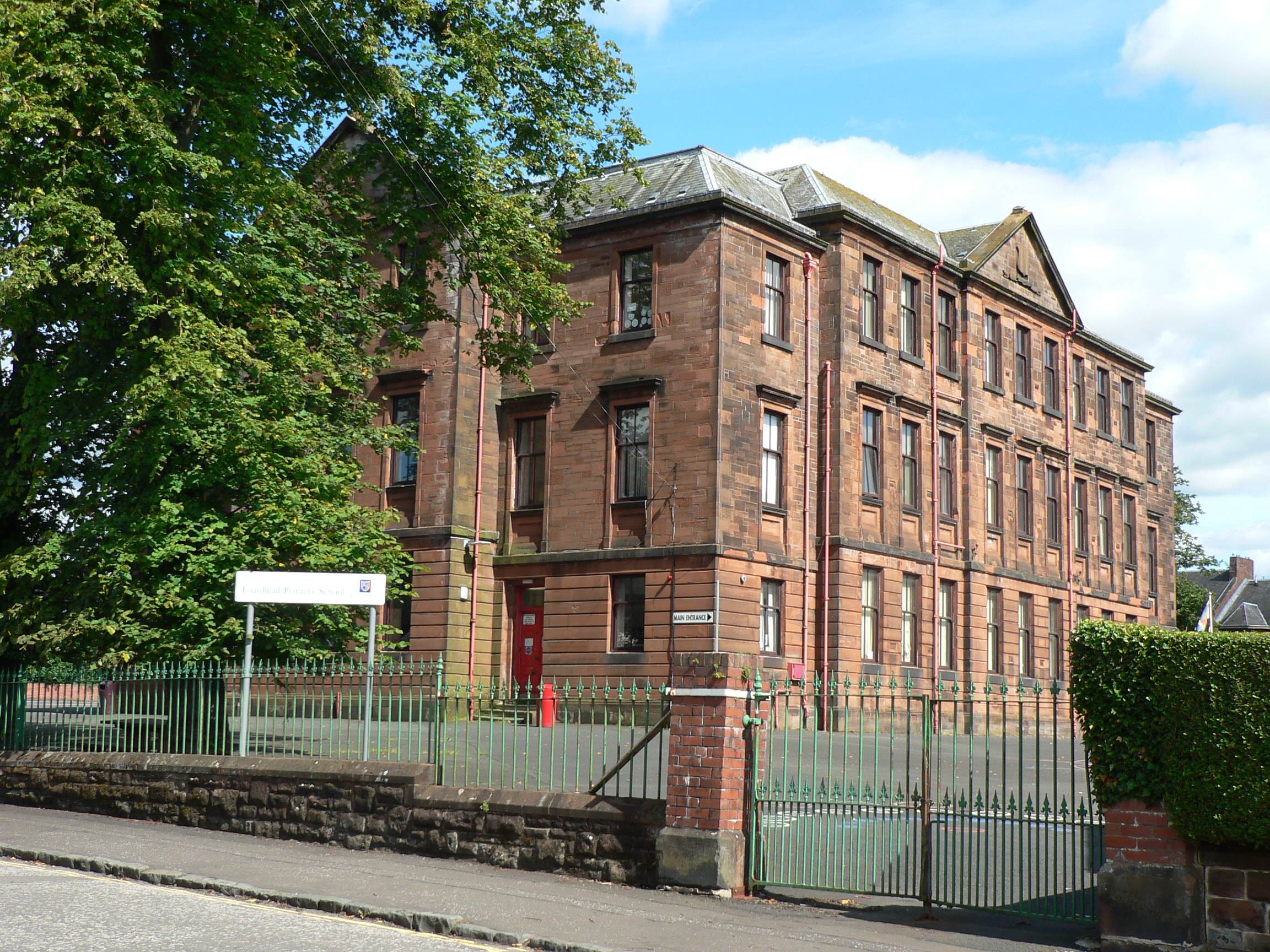 Loanhead Primary School, located on Loanhead Street in Kilmarnock, East Ayrshire. The school opened in 1905, with it's foundation stone being laid in 1903 by Andrew Carnegie.